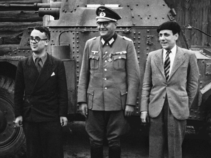 French writer and journalist Robert BRASILLACH, on the left, posing next to Jacques DORIOT, in the middle, on the East front about 1943. BRASILLACH is the chief editor of the newspaper JE SUIS PARTOUT, a pronazi propaganda publication.